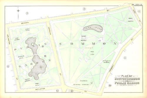 This is a detailed map of the Boston Common and Public Garden from an 1890 atlas of Boston published by GW Bromley & Co. The original map measures about 22"x32". Source: downloaded from